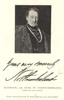 Portrait of Algernon Percy, 4th Duke of Northumberland